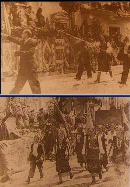 Late July 1941 Celebration of the Bandera's OUN Ukrainian statehood proclamation at The factual accuracy of this description or the file name is disputed.Reason: Buchach. Nazi and OUN-B officials at stand with Nazi and OUN-B flags. OUN activists greeted them with Nazi/OUN-B salute.